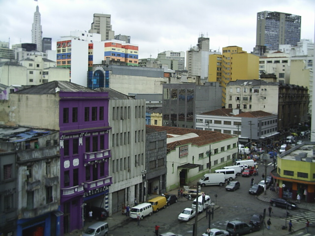 Downtown of São Paulo City.